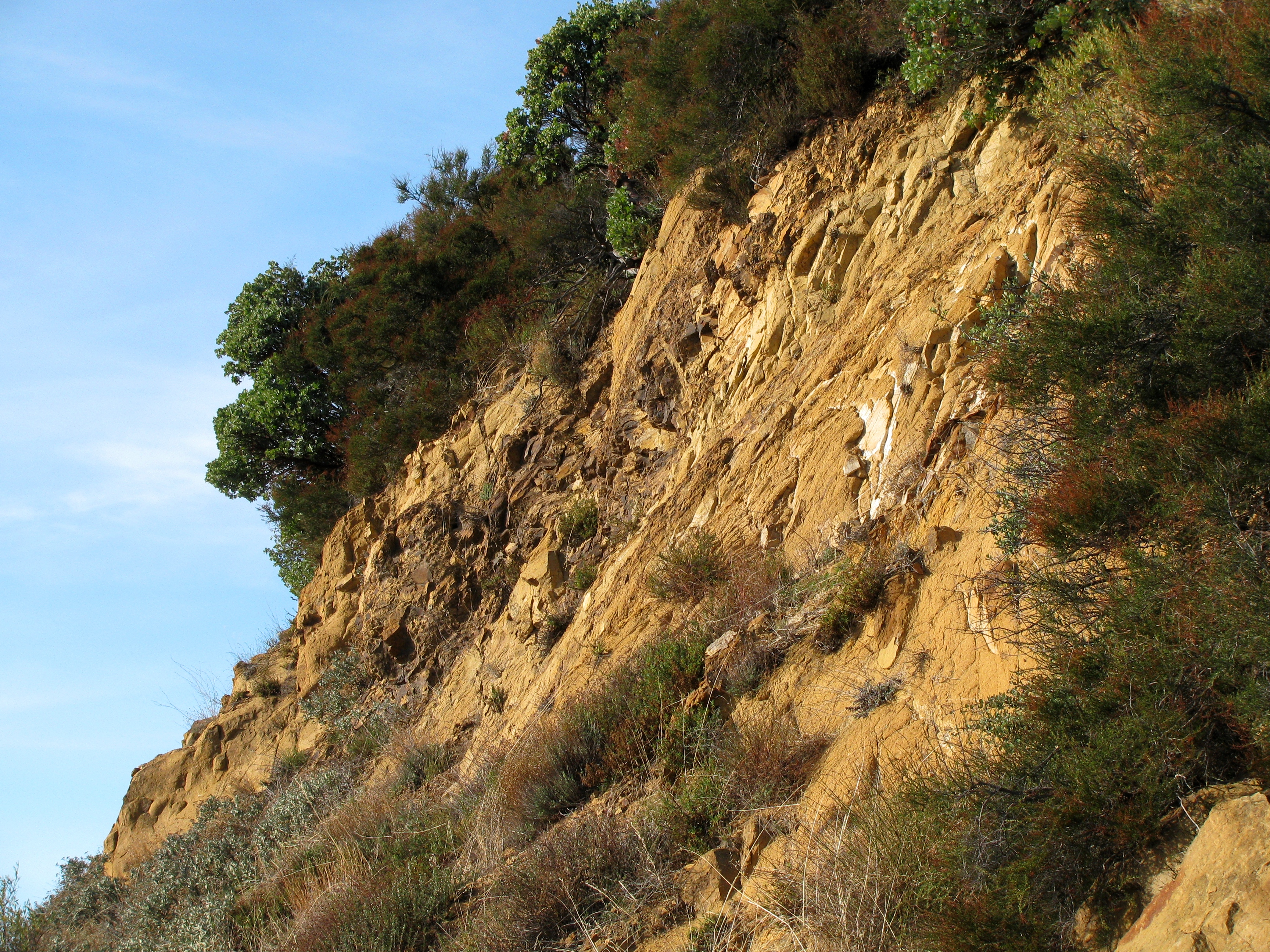 Sandstone bed within the Jalama Formation - in the Santa Ynez Mountains. On Camino Cielo Road north of Montecito, Santa Barbara County, California. Photo by self; GFDL/equiv.